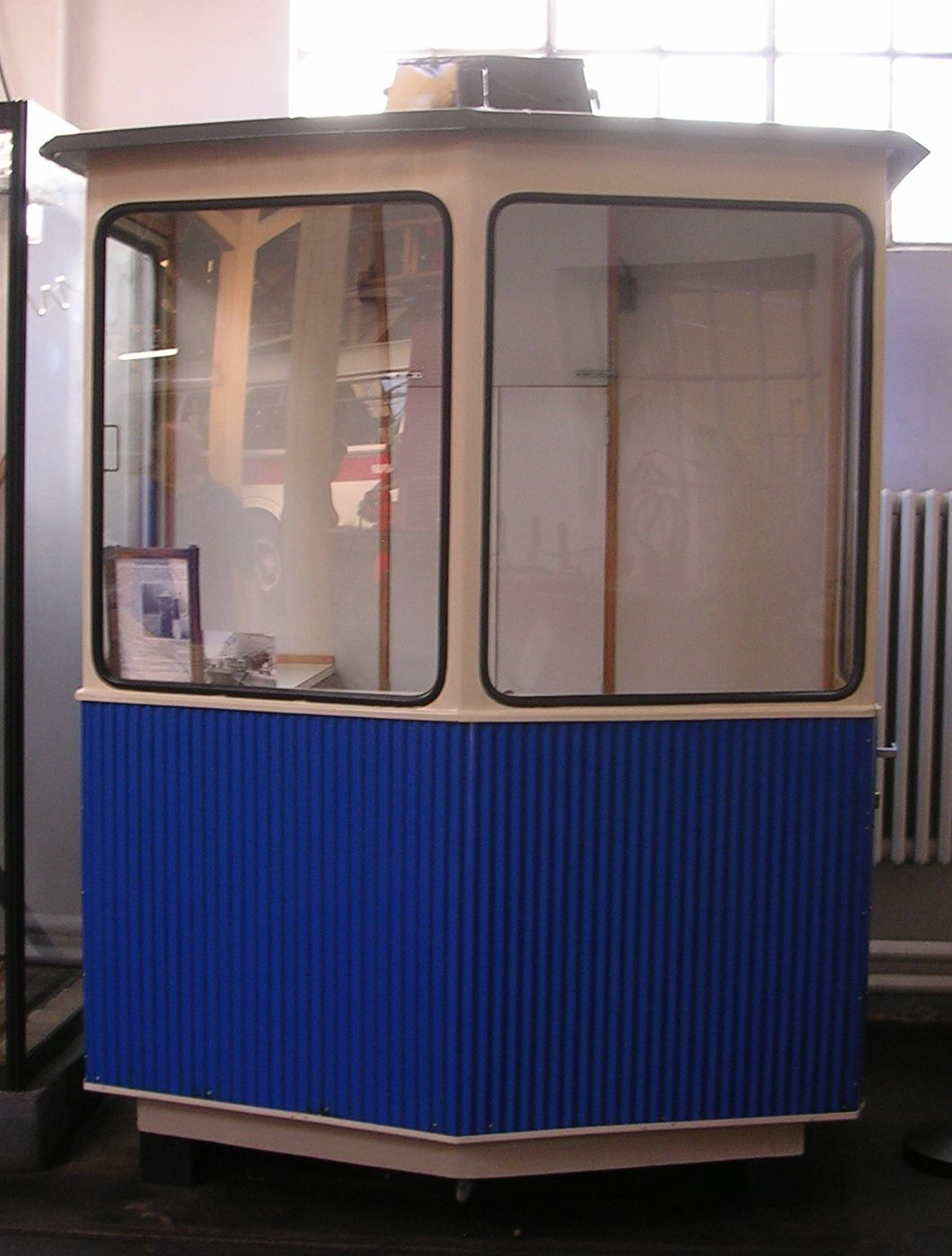 Střešovice, Prague, the Czech Republic. A tram pointman box.